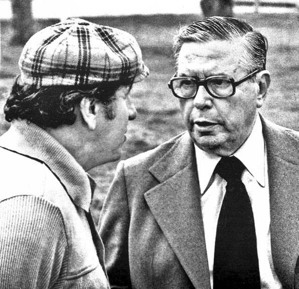 Boca Juniors manager, Juan Carlos "Toto" Lorenzo (left) and president Alberto J. Armando.